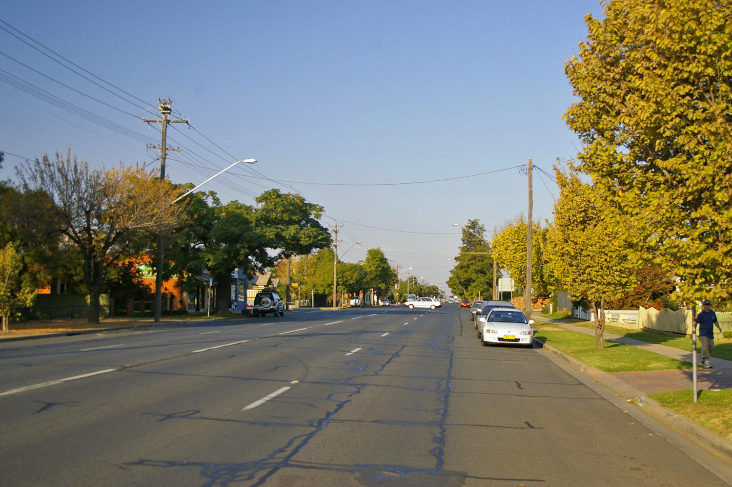 Sturt Highway (Edward Street), Wagga Wagga